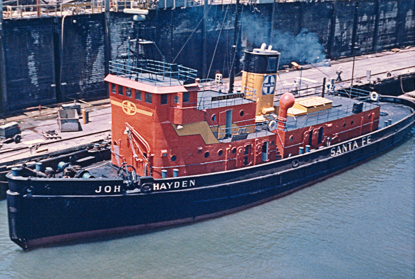 Santa Fe Railroad tugboat John R. Hayden. IMO number: 8424123